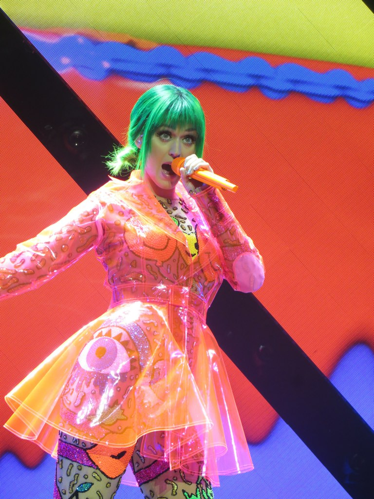 Katy Perry performing "Birthday", The Prismatic World Tour, Glasgow SSE Hydro 17 May 2014